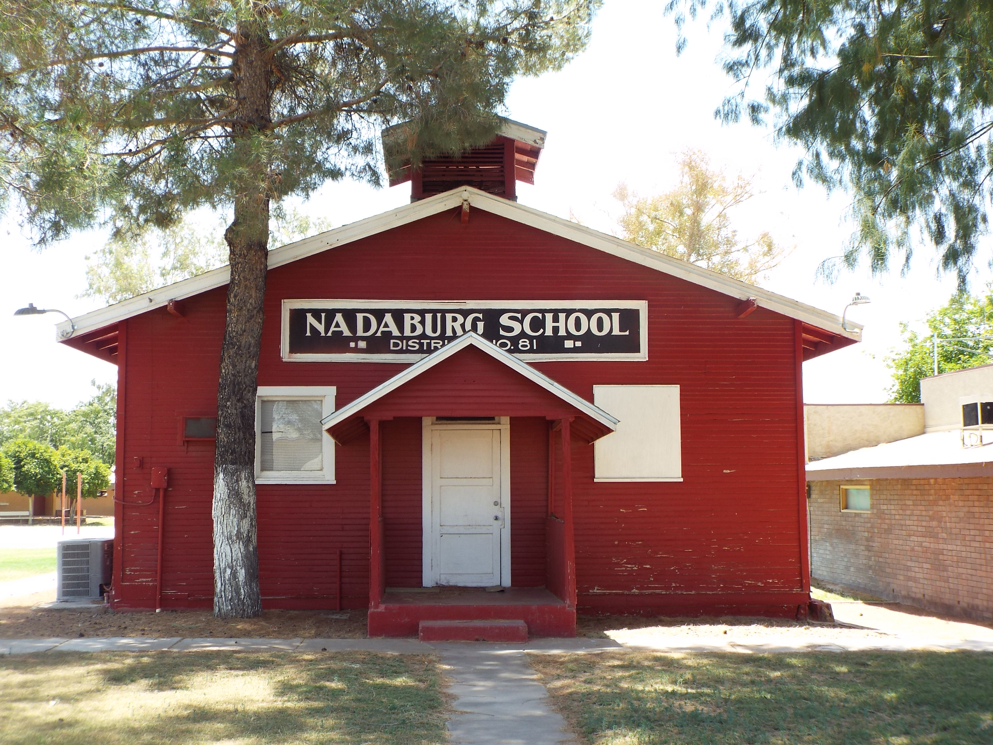 Historic Nadaburg School built in 1921 and located at 32919 Center Street in Wittmann, Az.